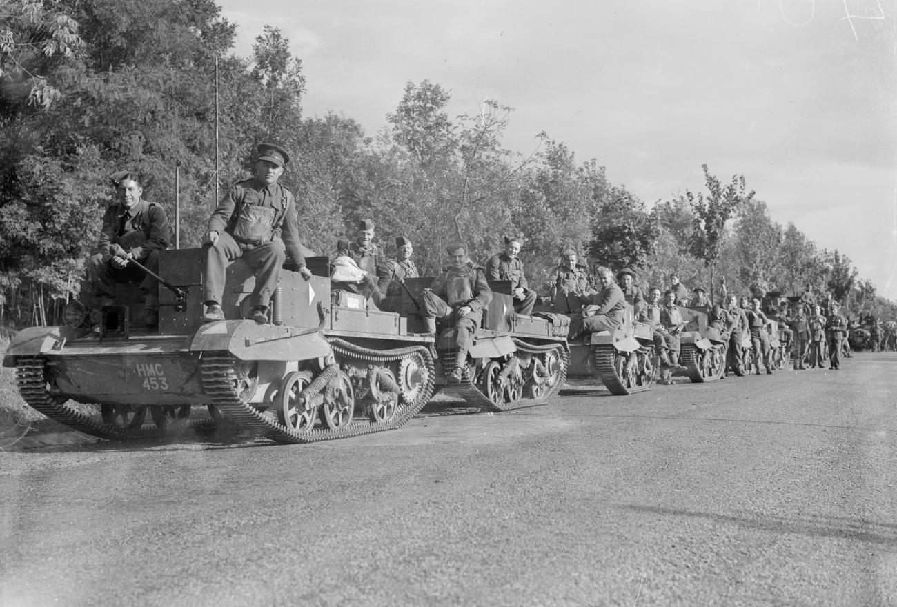 The British Army in France 1939 Scout carriers of 13/18th Royal Hussars during an exercise near Vimy, 11 October 1939.